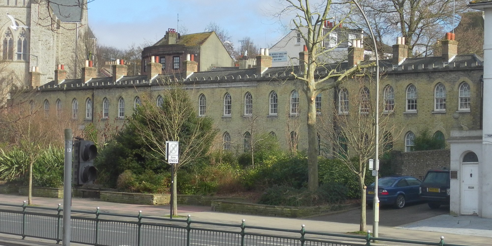 Percy and Wagner Almshouses, 1–12 Lewes Road, Hanover, City of Brighton and Hove, England. The middle six almshouses were built in 1795 in memory of Dorothy and Philadelphia Percy. The three on each end were added in 1859 by Henry Michell Wagner and Mary Wagner in memory of Frederick Hervey, 1st Marquess of Bristol. Listed at Grade II by English Heritage (NHLE Code 1381669)